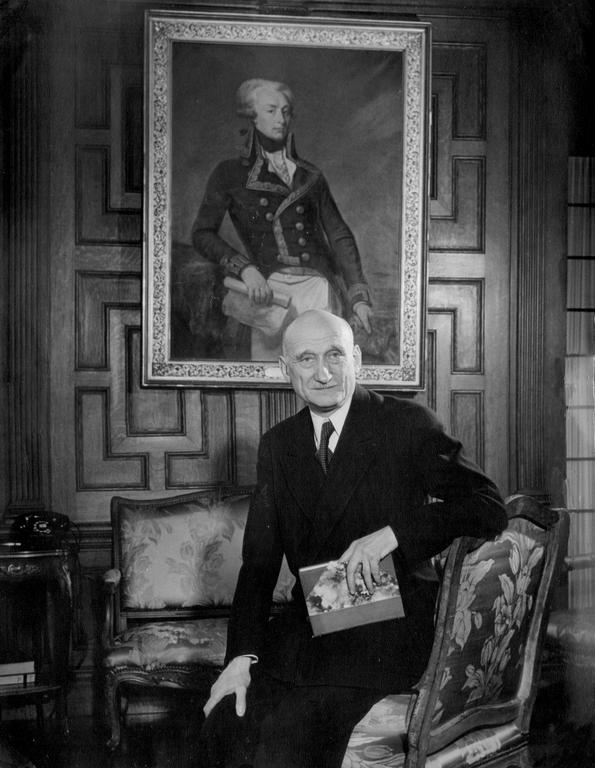 Robert Schuman, French Foreign Minister, after the signing of the North Atlantic Treaty, under the portrait of Lafayette at the French Embassy in Washington in April 1949.